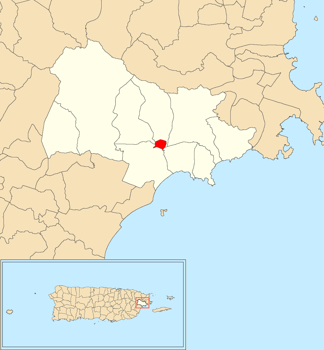 Naguabo barrio-pueblo, Naguabo, Puerto Rico locator map